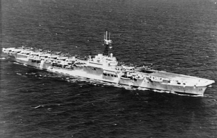 The Royal Navy aircraft carrier HMS Glory (R62) off Korea.